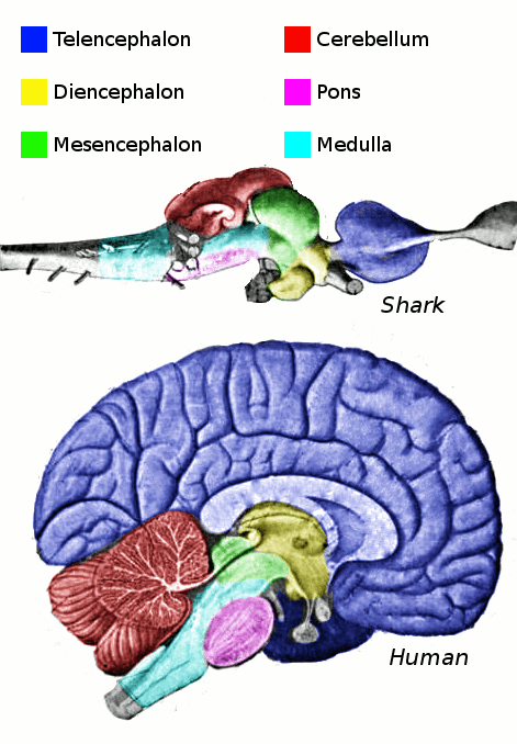 Main regions of the vertebrate brain, shown for a shark and a human brain (the human brain is sliced along the midline). The two brains are not on the same scale.